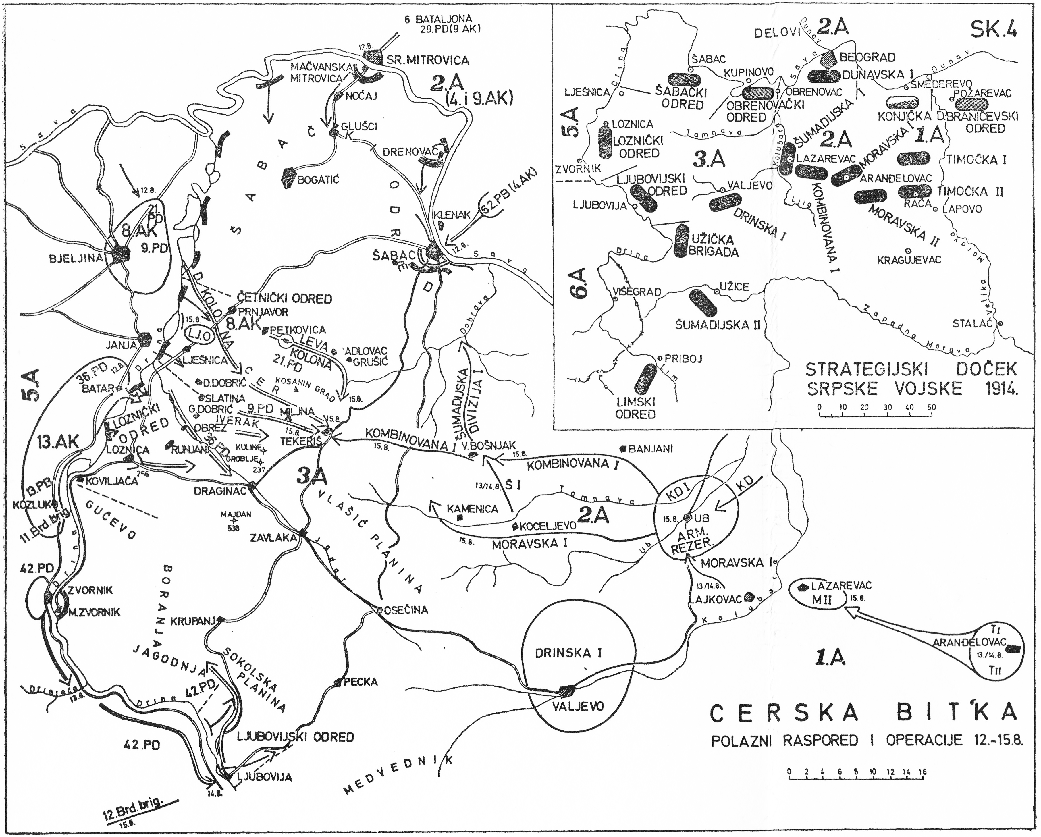 Battle of Cer (Serbia) 12-15. august 1914